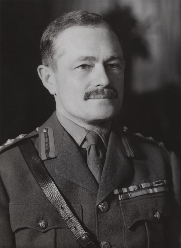 Portrait of Lieutenant General Sir Thomas Hutton